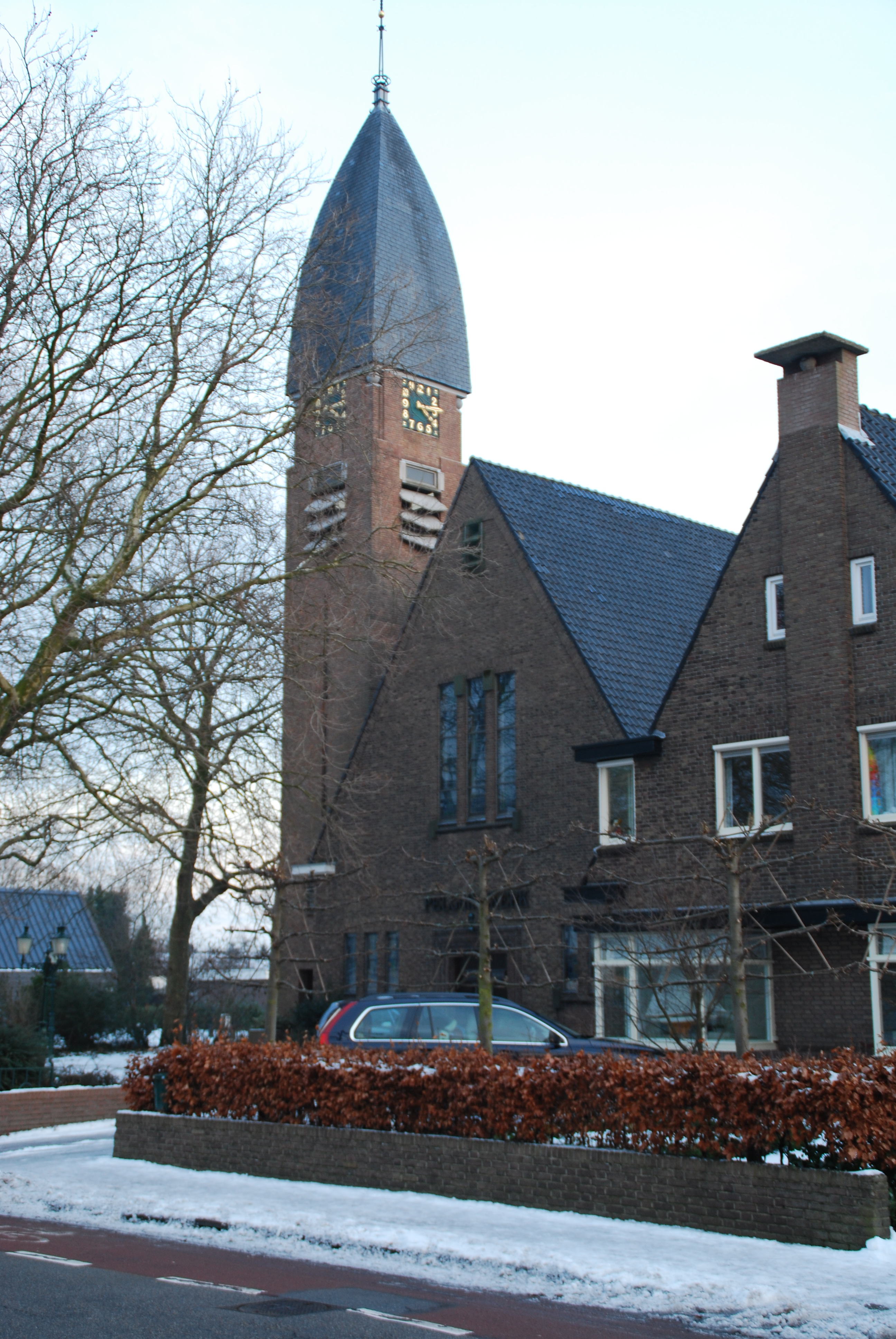 Pelgrimskerk - Zoetermeer, the Netherlands. By Bastiaan Willem Plooij (1932)